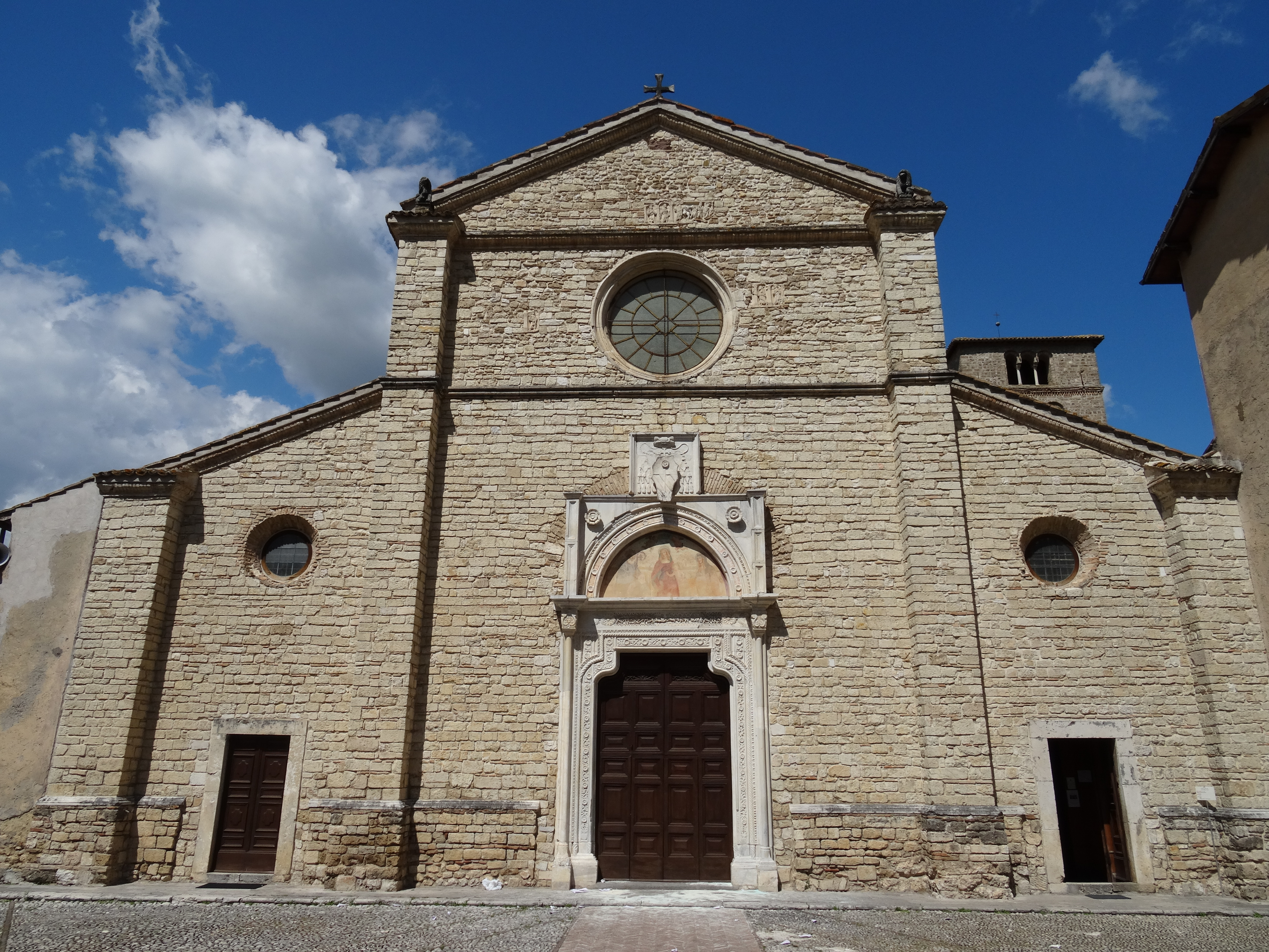 Abbazia di Farfa